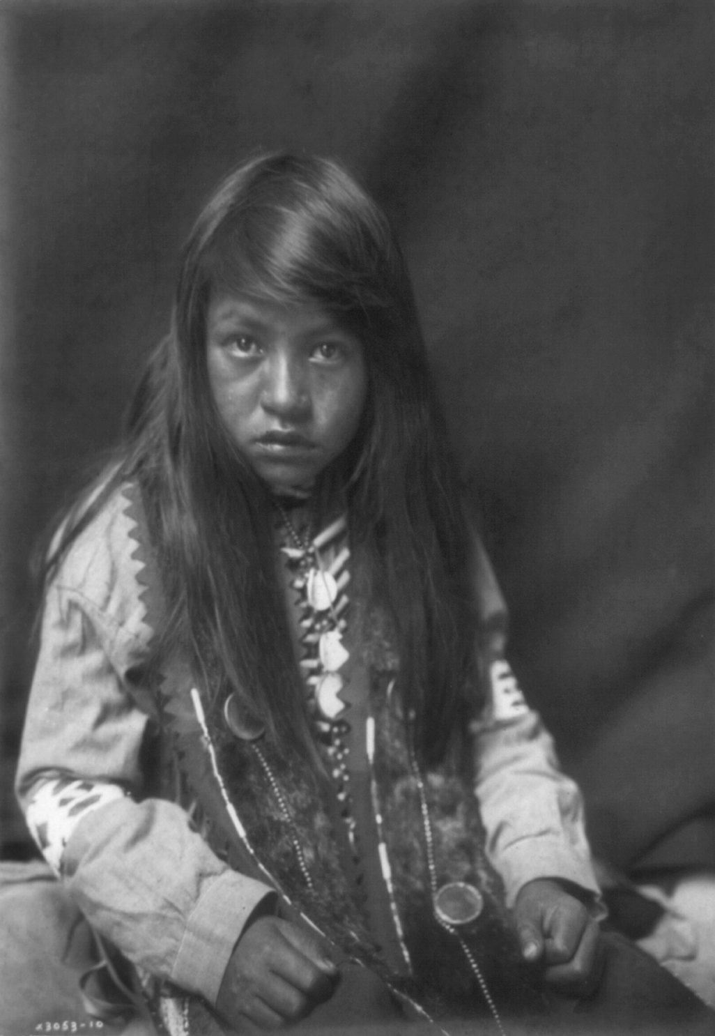 Portrait of a young man, half-length, seated, with loose hair, a cloth shirt, shell beads, and a fur strip around his shoulders.